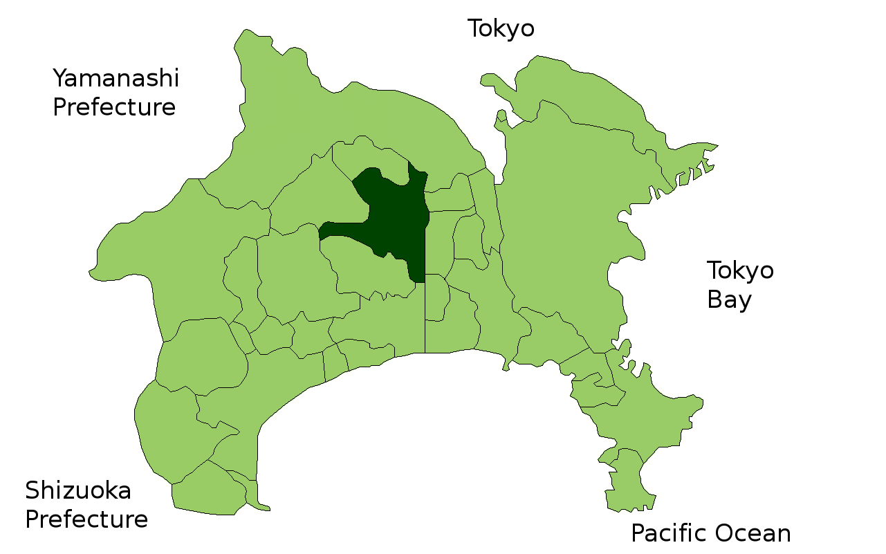 Location Map of Atsugi in Kanagawa Prefecture, Japan